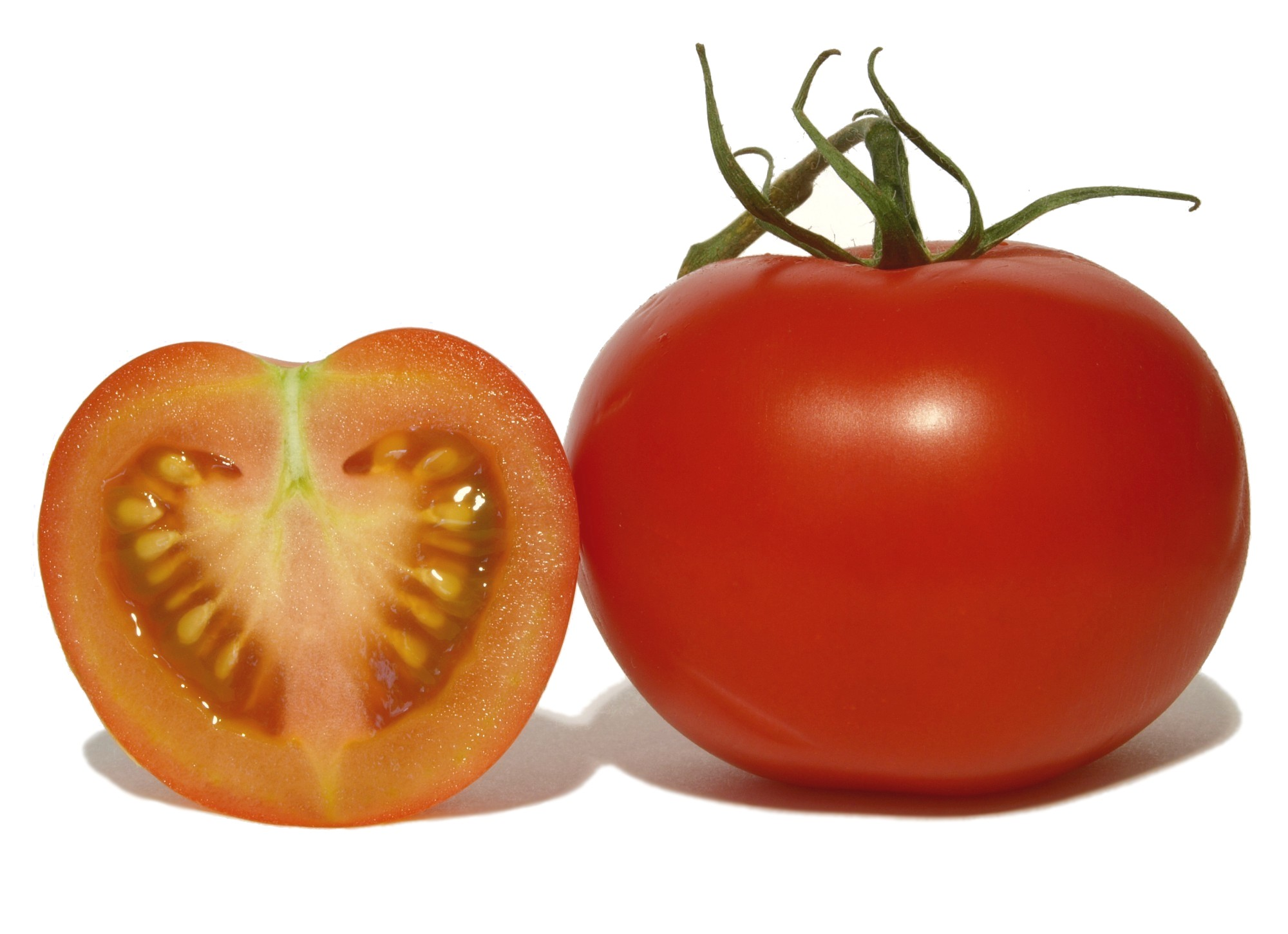 A complete and a sliced tomato